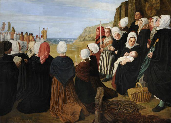 Blessing of the Sea, oil on canvas